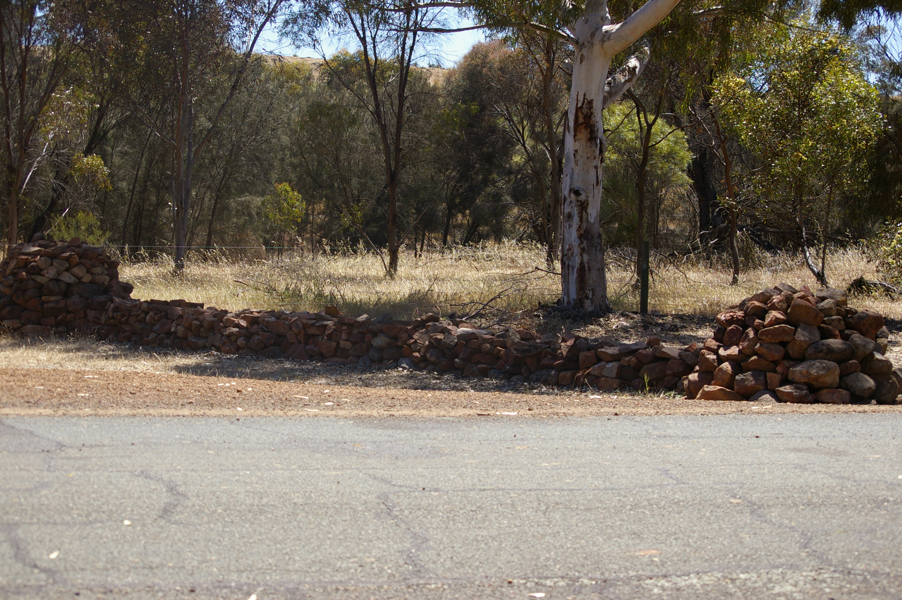 Taken on the Avondale Agricultural Reasearch Station the stone wall was placed on the original boundary as surveyed in 1836 between avon location 14 and avon location K. Avon location 14 was granted in lieu of salary to Captain Currie RN harbour master for Fremantle. Location K was granted in leiu of salary to Governor Stirling. photo is taken from on location K looking north to location 14.